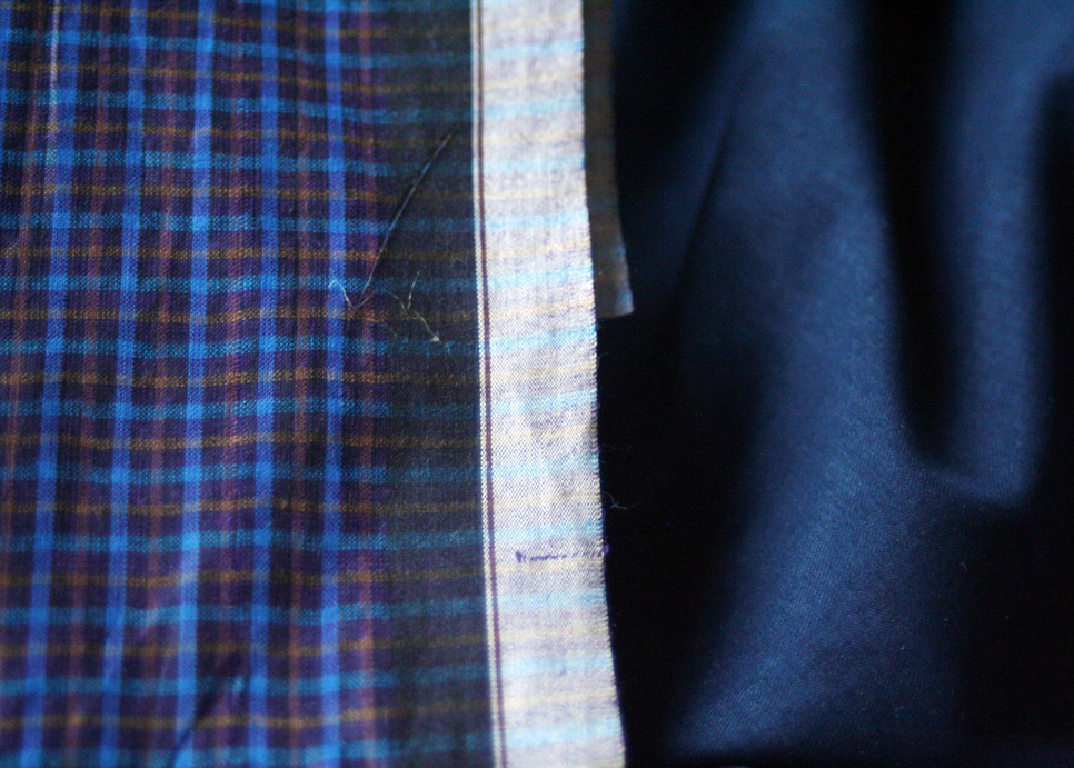 Lungi, Lungis; Resin-sealed Border of Lungi